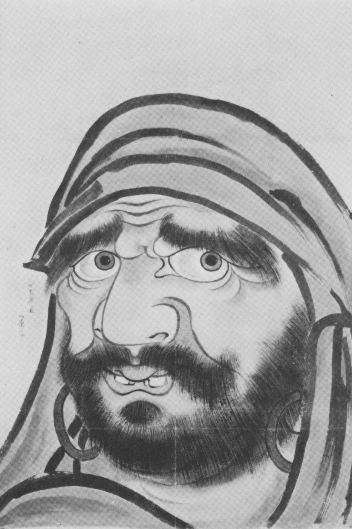 Picture of Daruma